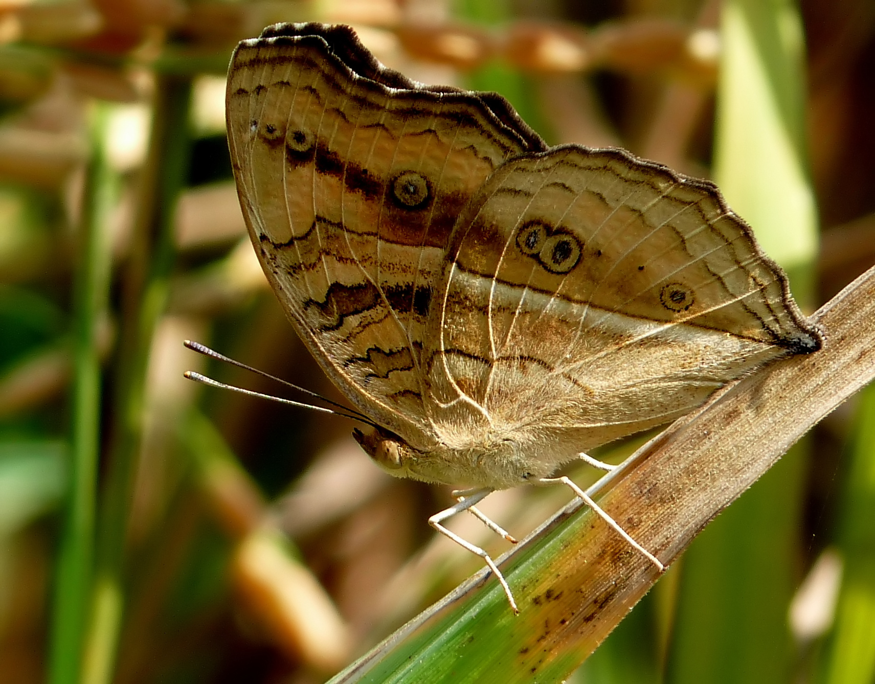 Junonia almana WSF (Under Side) The Peacock Pansy (Junonia almana) is a species of nymphalid butterfly found in South Asia. It exists in two distinct adult forms, which differ chiefly in the patterns on the underside of the wings; the dry-season form has few markings, while the wet-season form has additional eyespots and lines. Taken at Kadavoor, Kerala, India